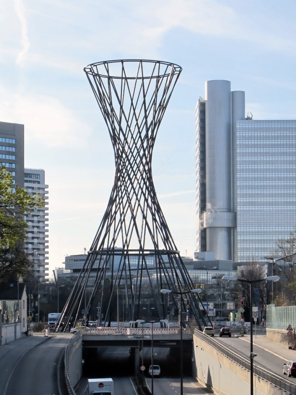 Munich,suburb Bogenhausen, Sculpture Mae West at Place "Effner Platz"